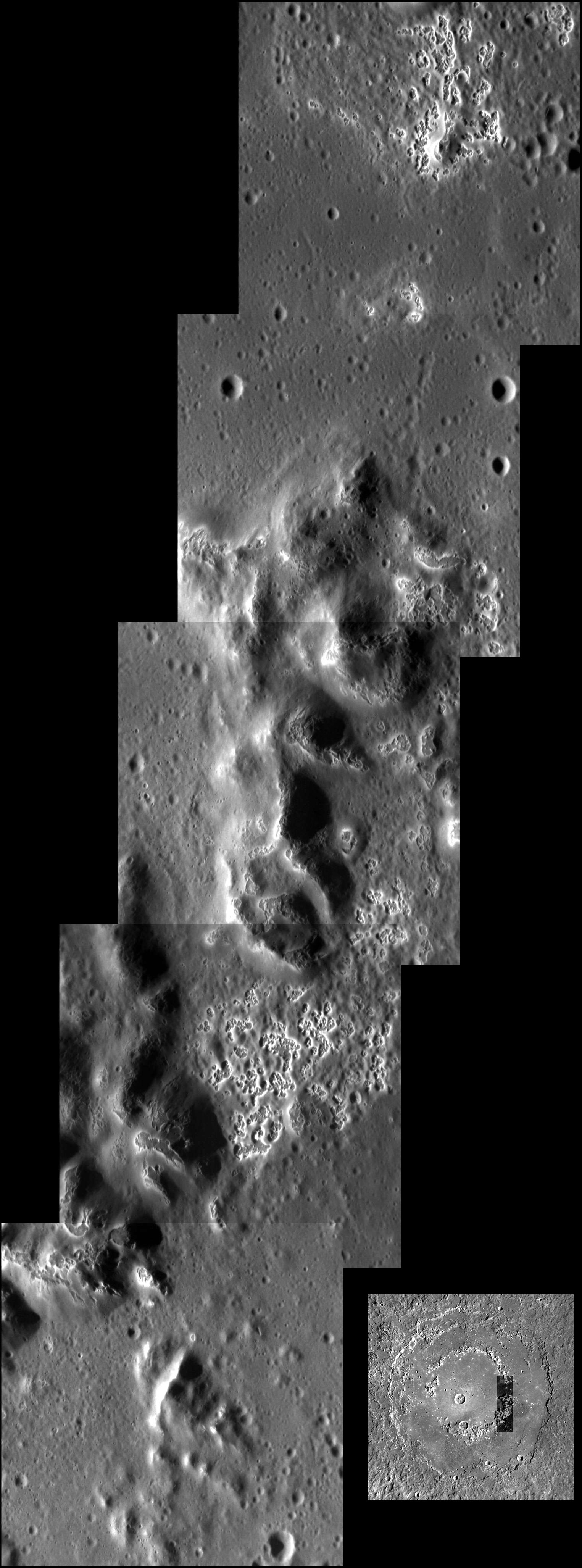 Mosaic of Narrow Angle Camera (NAC) frames from the MESSENGER spacecraft showing part of the central peak ring of Raditladi crater on Mercury. Landforms known as hollows are evident in many parts of the image, especially a cluster below center. The index map in lower right corner shows the approximate location of the NAC images. Source images: EN0220979975M, EN0220979981M,EN0220979987M, EN0220979993M, EN0220979999M